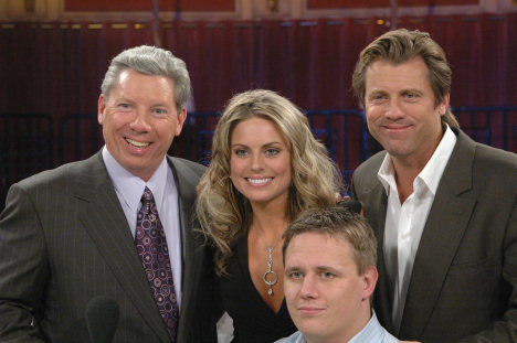 Mike Sexton, Courtney Friel, event winner Rehne Pedersen and Vince Van Patten at World Poker Tour Five Diamond Poker Classic.